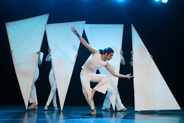 Dreams in dreams 1